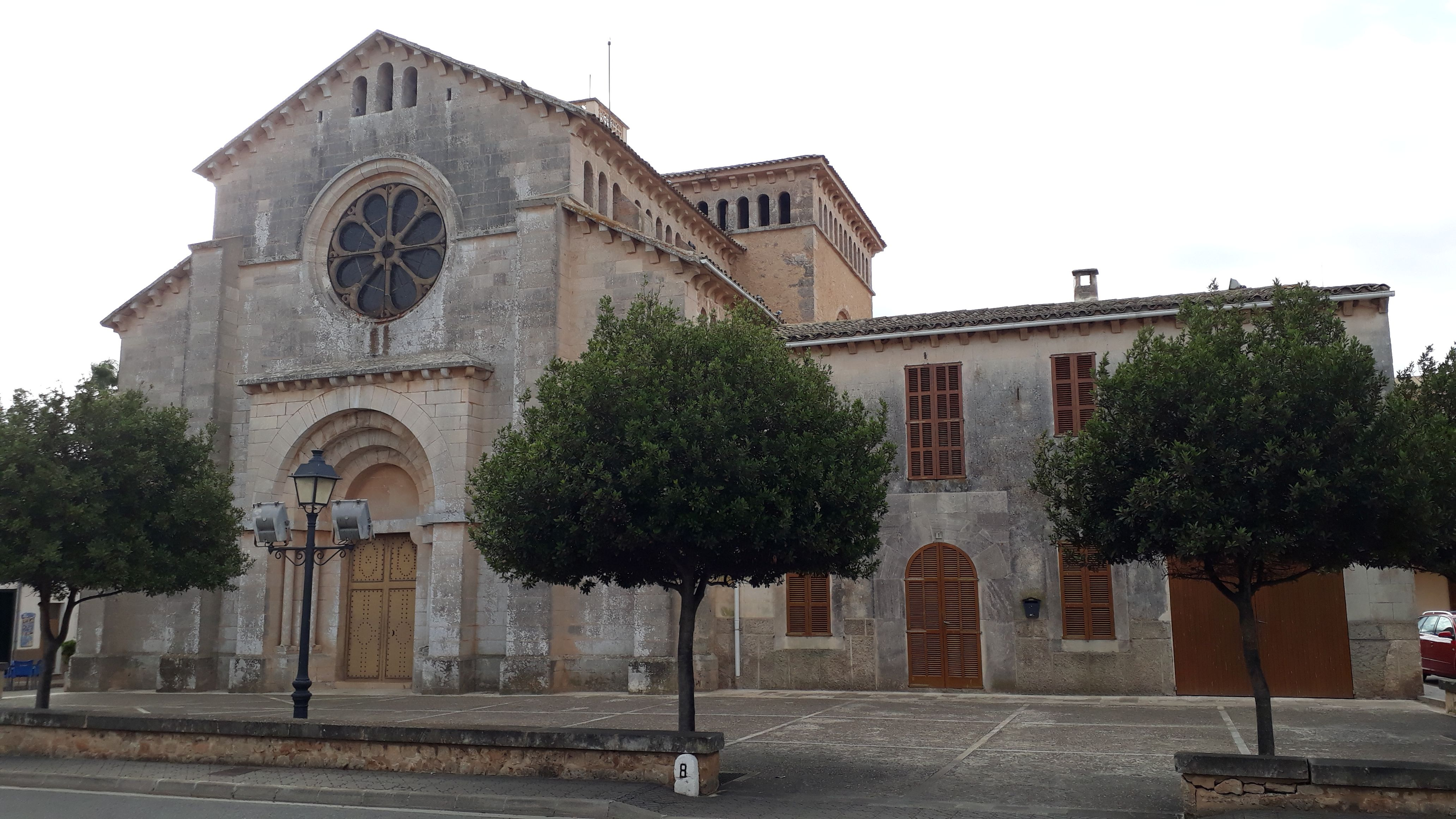 Parishchurch (Parròquia) de Sant Miquel in Calonge, Muncipality Santanyí on Mallorca.